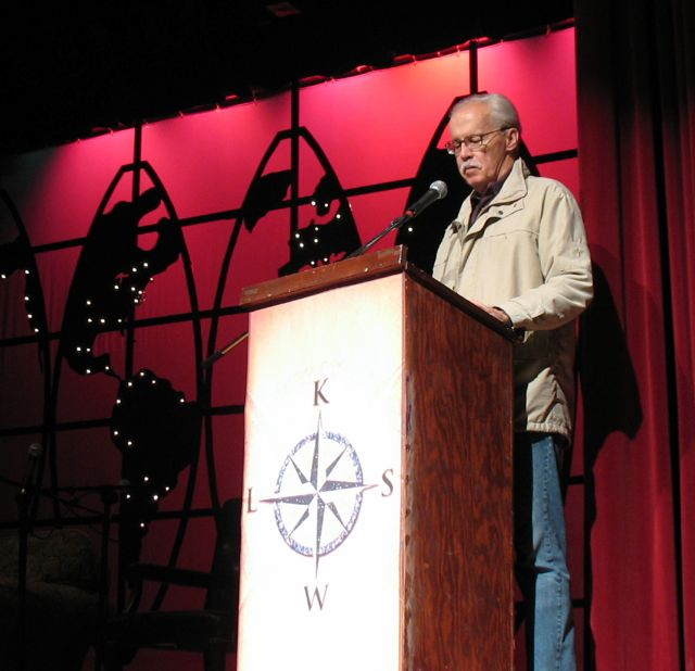 Michael Mewshaw reading from his work at the 2006 Key West Literary Seminar themed "The Literature of Adventure, Travel, and Discovery"